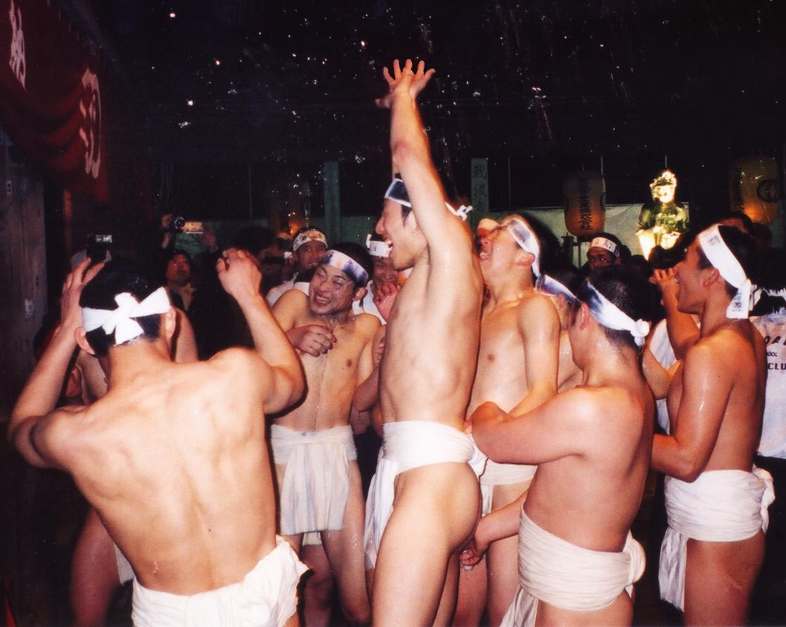 "naked festival" at Saidaiji Temple in Okayama